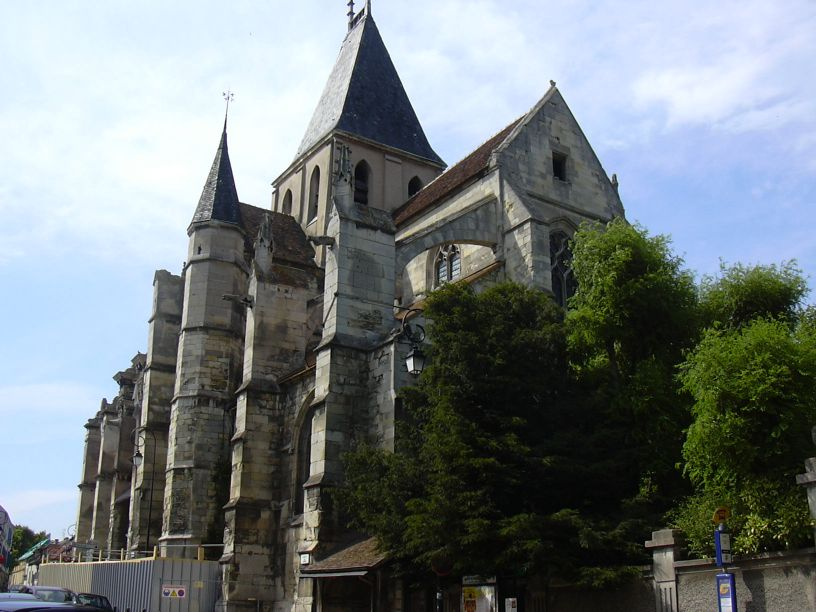 Church of Saint Didier in Villiers-le-Bel (Val-d'Oise, France, 13th century).